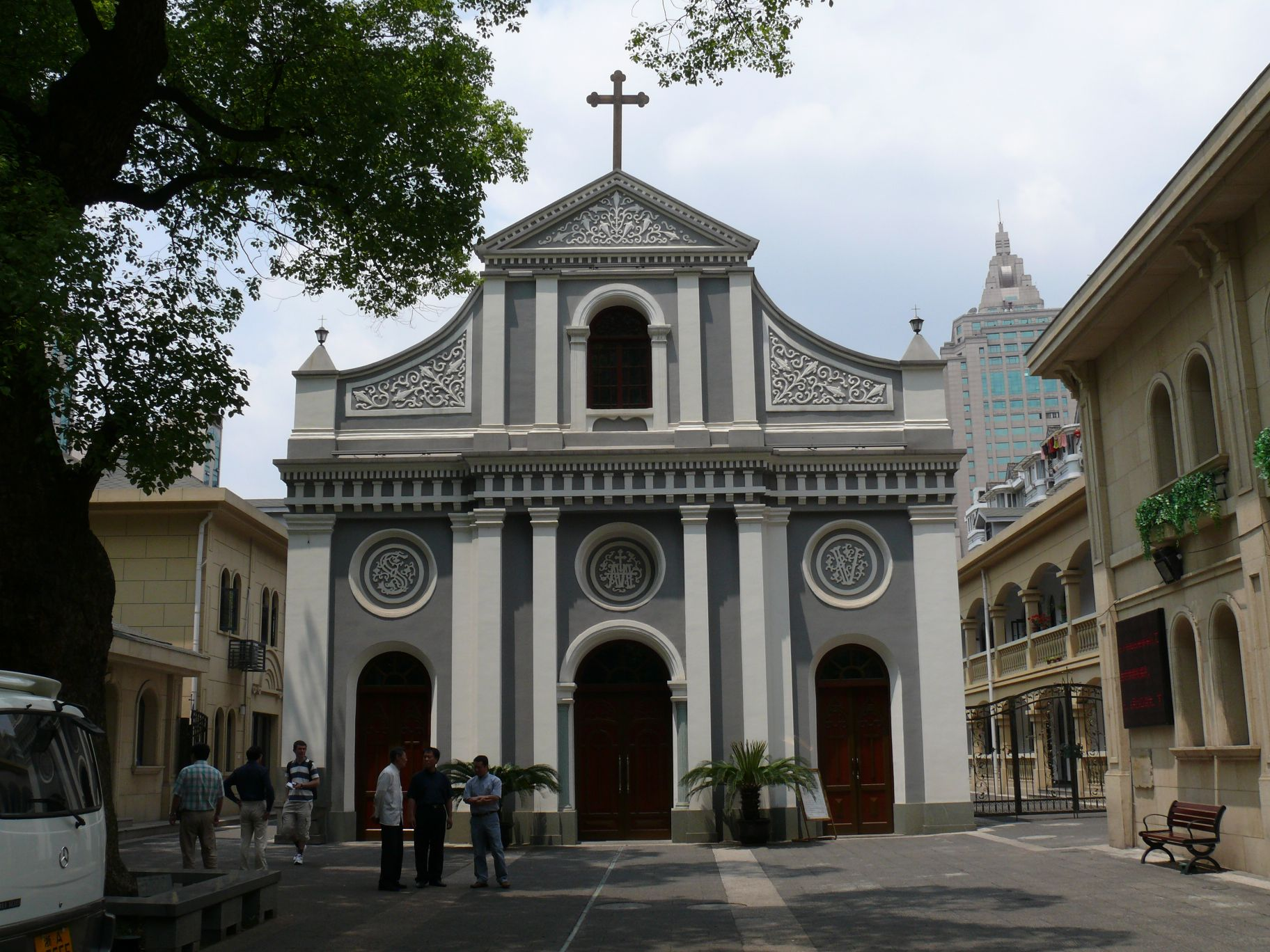 Cathedral of the Immaculate Conception of Hangzhou (Zhejiang, China).